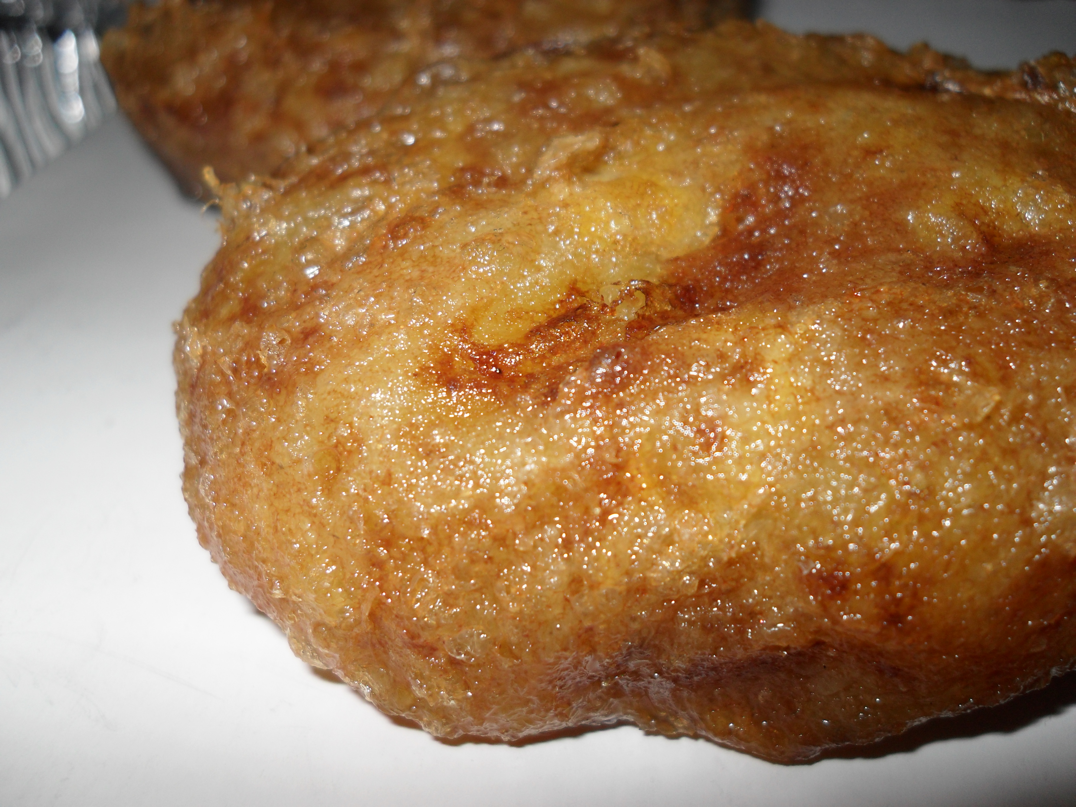 Pakistan dish of potatoes Aloo Tikki, detail